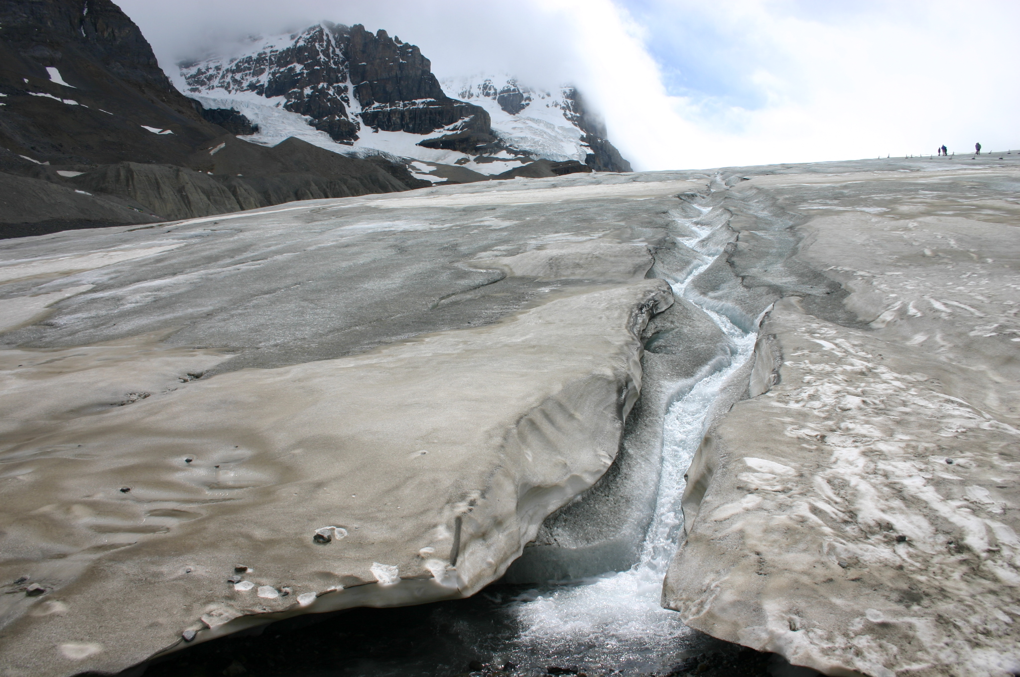 A river of melt-water running down the slope of a toe of the Athabasca Glacier.